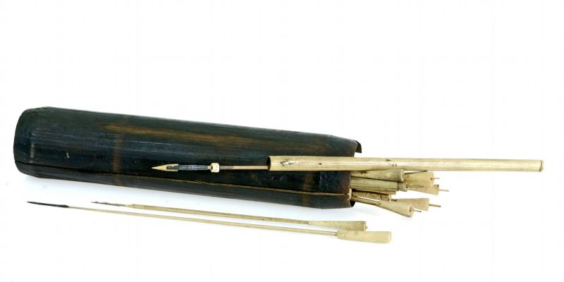 Bamboo quiver for blowpipe darts